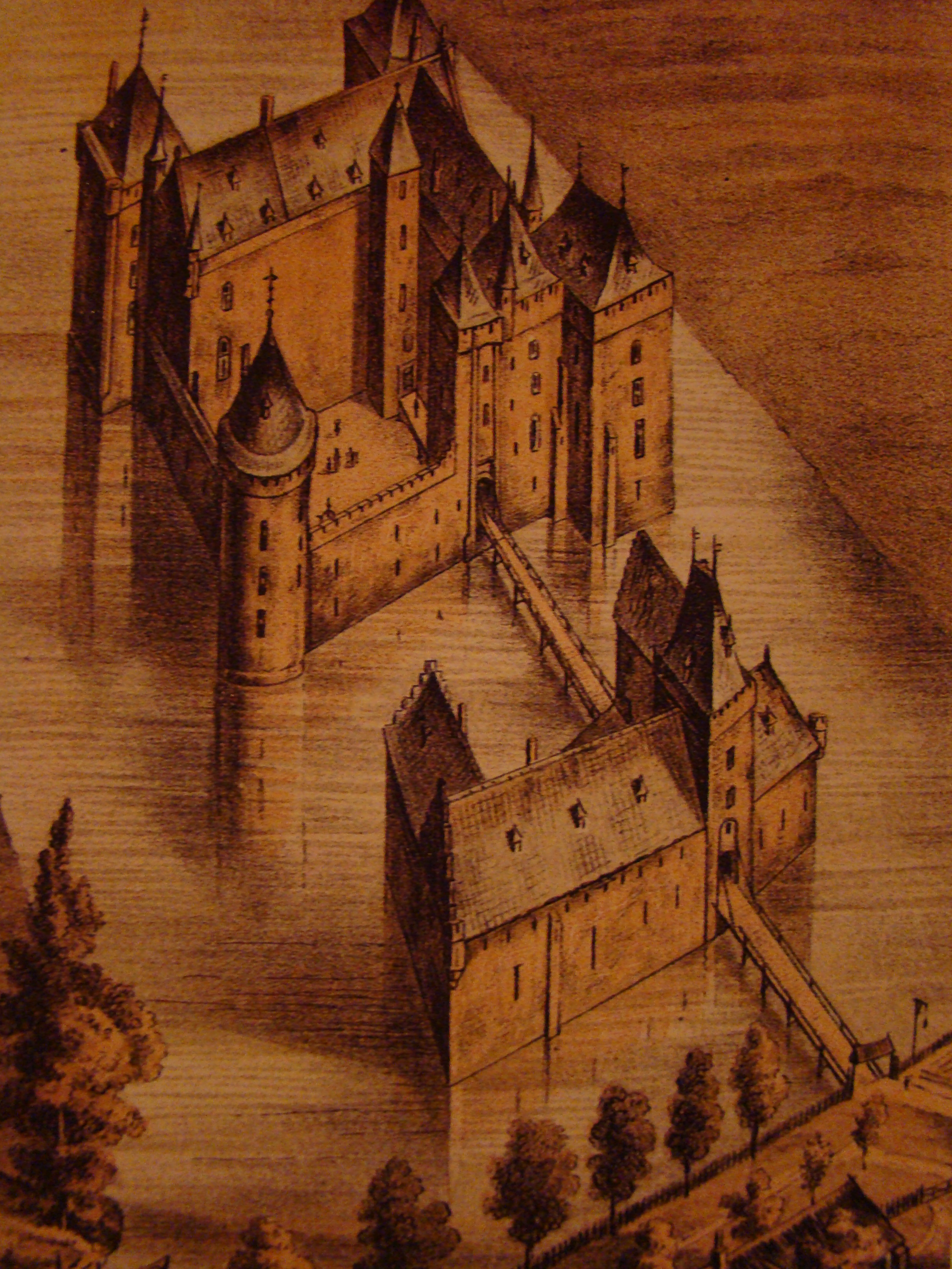 Castles of the Netherland, from the book "Merkwaardige kasteelen in Nederland" by Van Lennep and Hofdijk, 2nd release 1884.